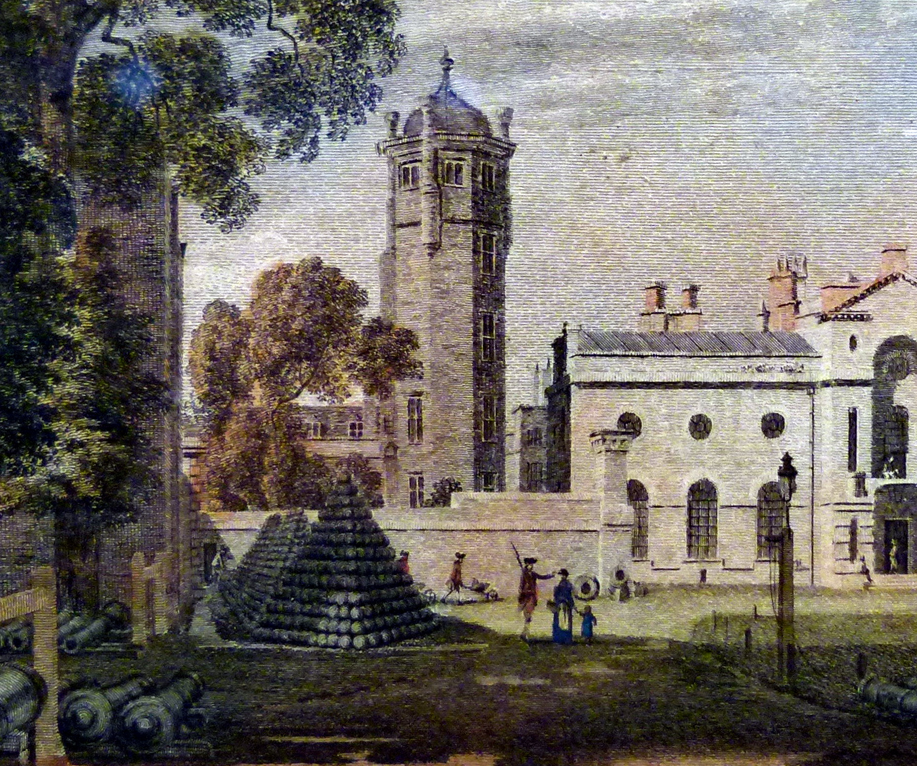 Tower Place and part of the Old Royal Military Academy (right) at the Warren (later Royal Arsenal) in Woolwich. Detail of a print by Paul Sandby, published in 1775(?). Part of a semi-permanent exhibition dedicated to the Royal Artillery and Royal Military Academy in Greenwich Heritage Centre, Woolwich, south east London, UK.